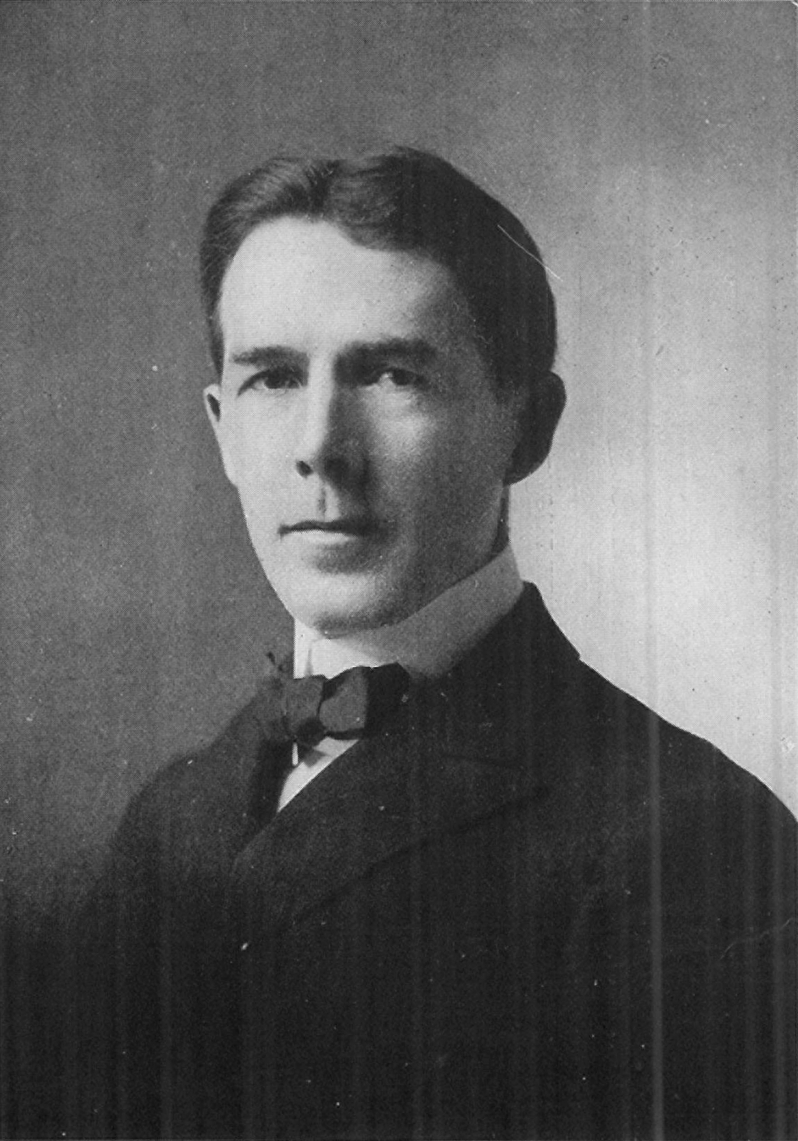 University of Washington President (1902–1914) Thomas Franklin Kane